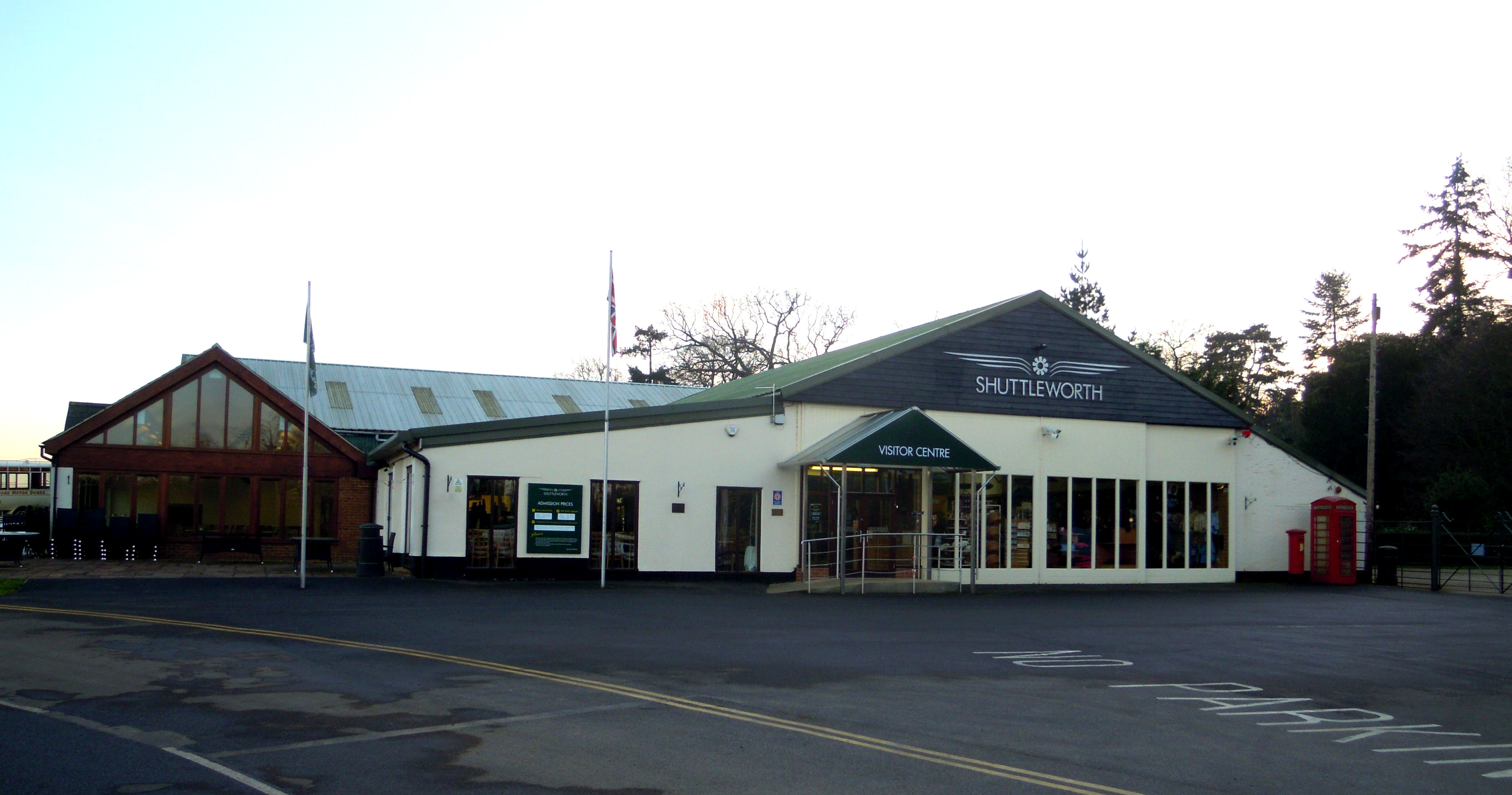 The main block and entrance to the Shuttleworth Collection near Biggleswade in Bedfordshire